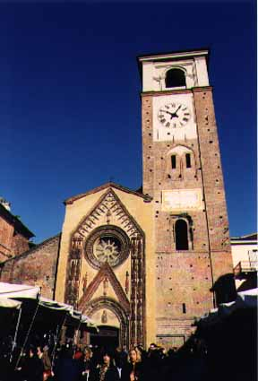 The Cathedral of Chivasso, Piedmont, Italy